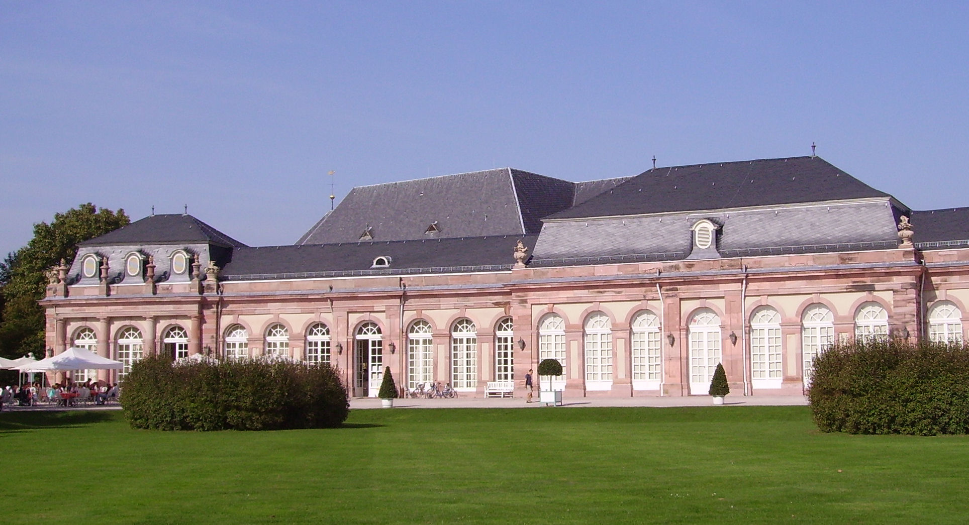 Zirkelbau, Schlossgarten Schwetzingen (mit Eingang zum Schlosstheater), Schwetzingen, Baden-Württemberg